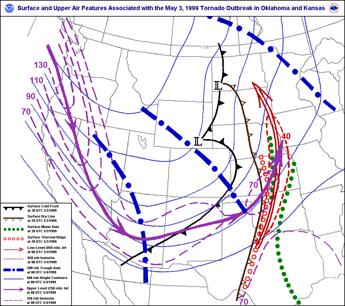 A map depicting surface and upper level atmospheric features associated the May 3, 1999 Tornado Outbreak in Oklahoma and Kansas.